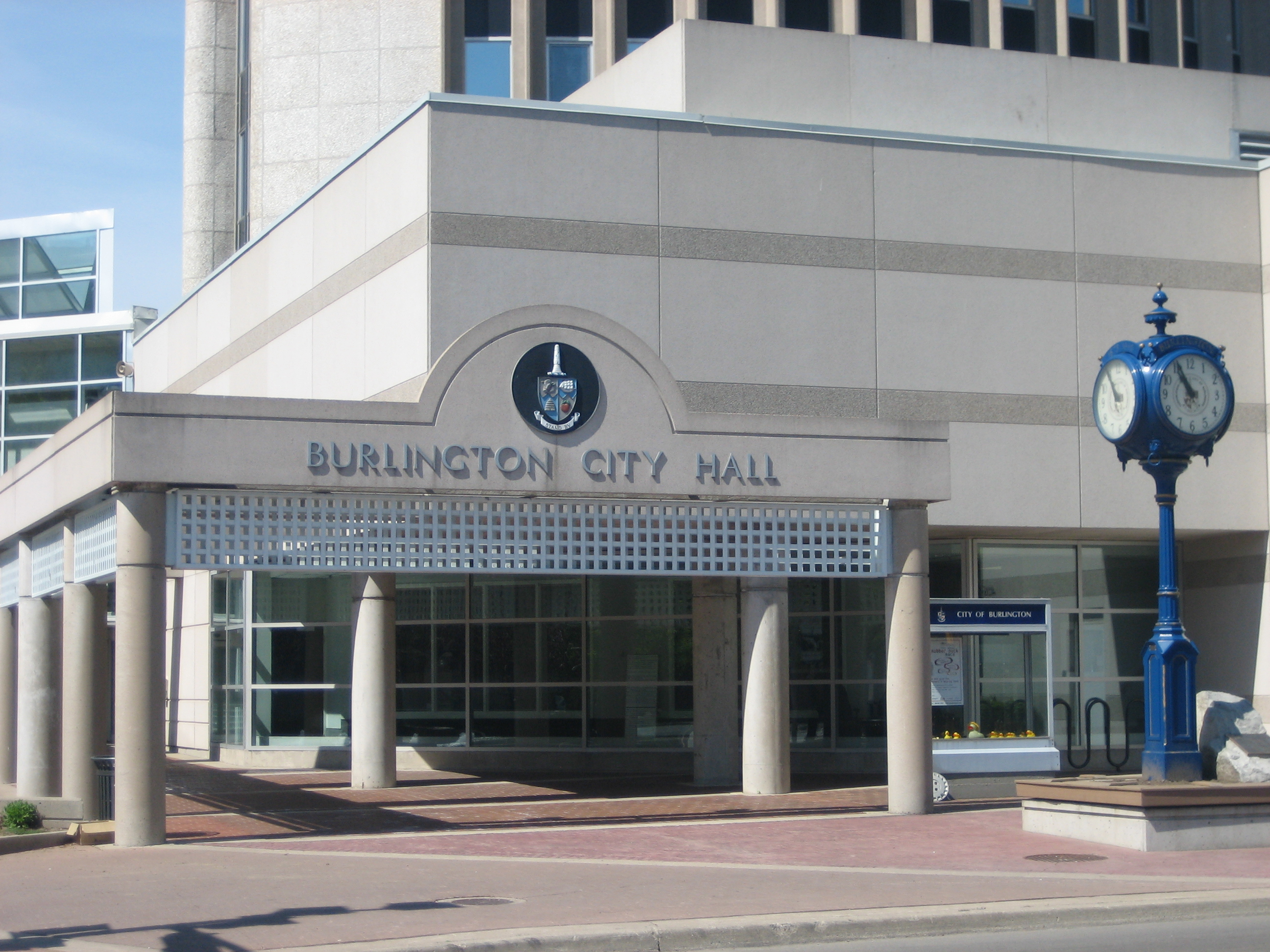 The photo is of the city hall in Burlington, Ontario, Canada. The photo was taken by Andrew Lynes, on May 21, 2007. It was taken for use in the Burlington, Ontario article.